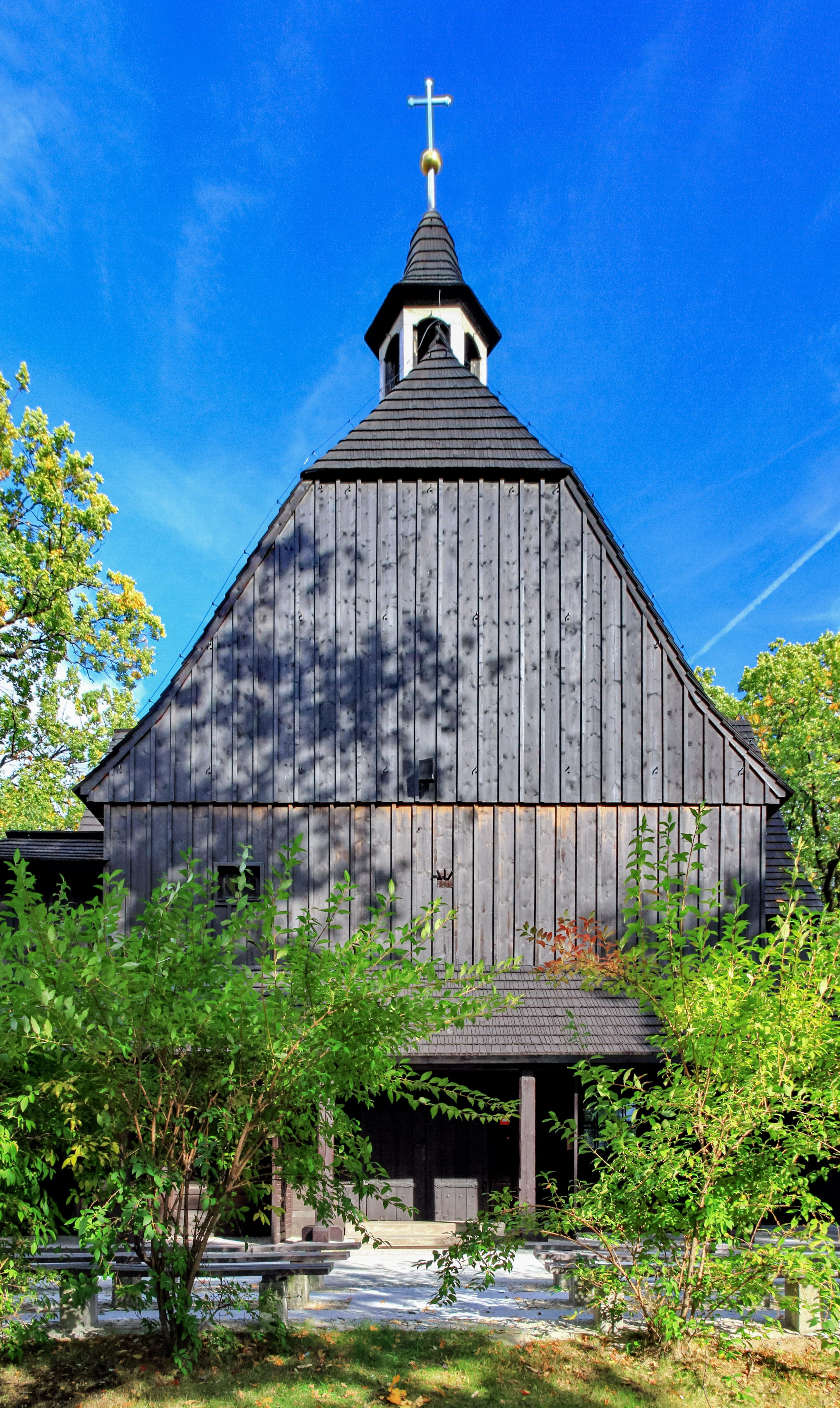 Corpus Christi church. Jankowice, Silesian Voivodeship, Poland.